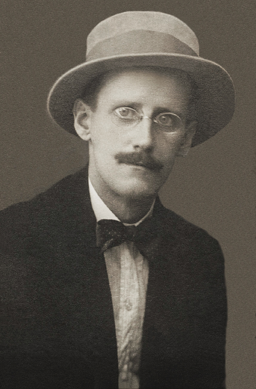 James Joyce, 1 photographic print, b&w, cartes-de-visites, 9.2 x 6.1 on mount 10.5 x 6.5 cm.